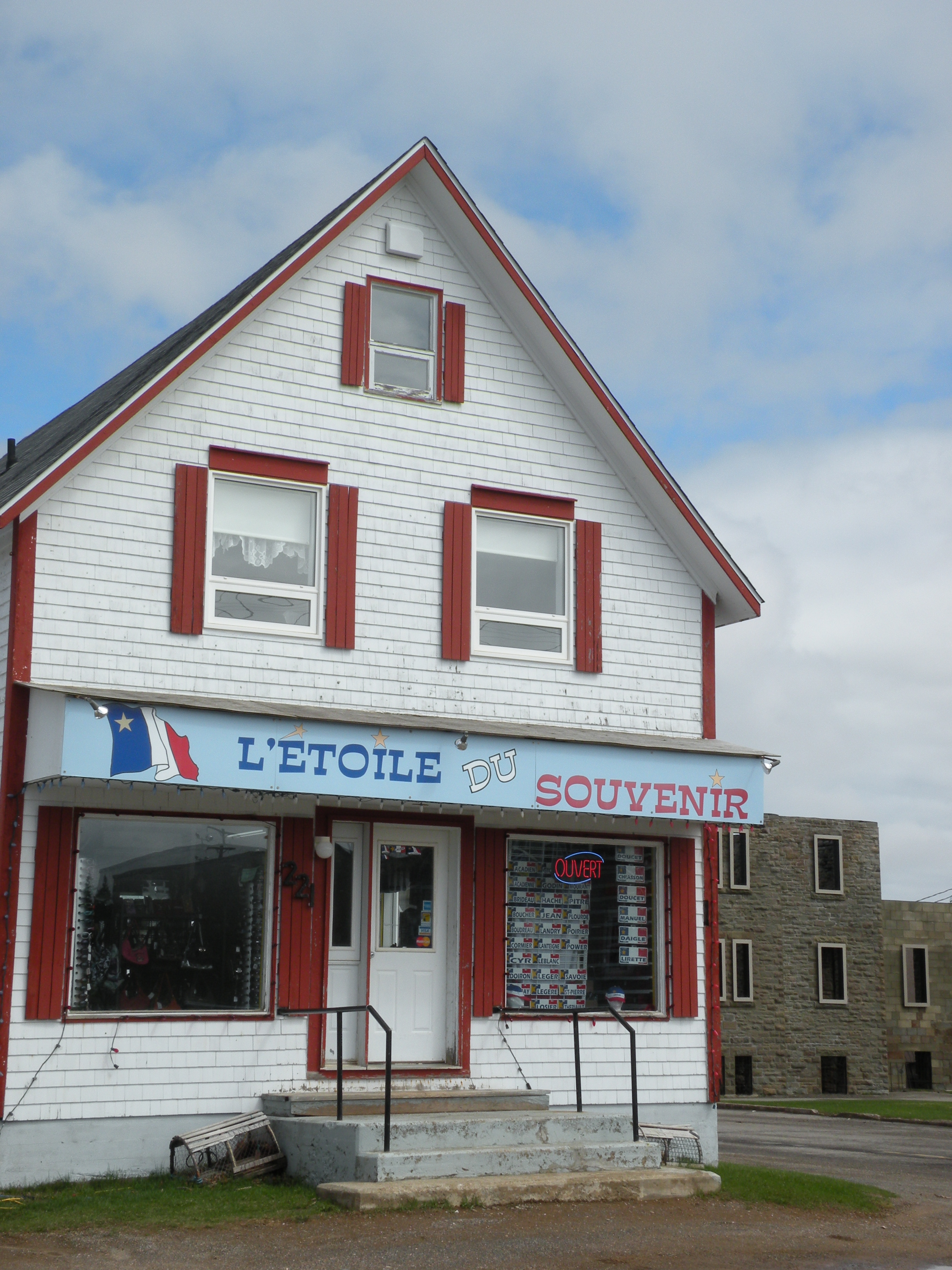 The first headquarter of the Caisses populaires acadiennes in Caraquet, New Brunswick, Canada. The building now hosts a gift shop.